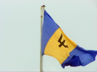 Flag of Barbados